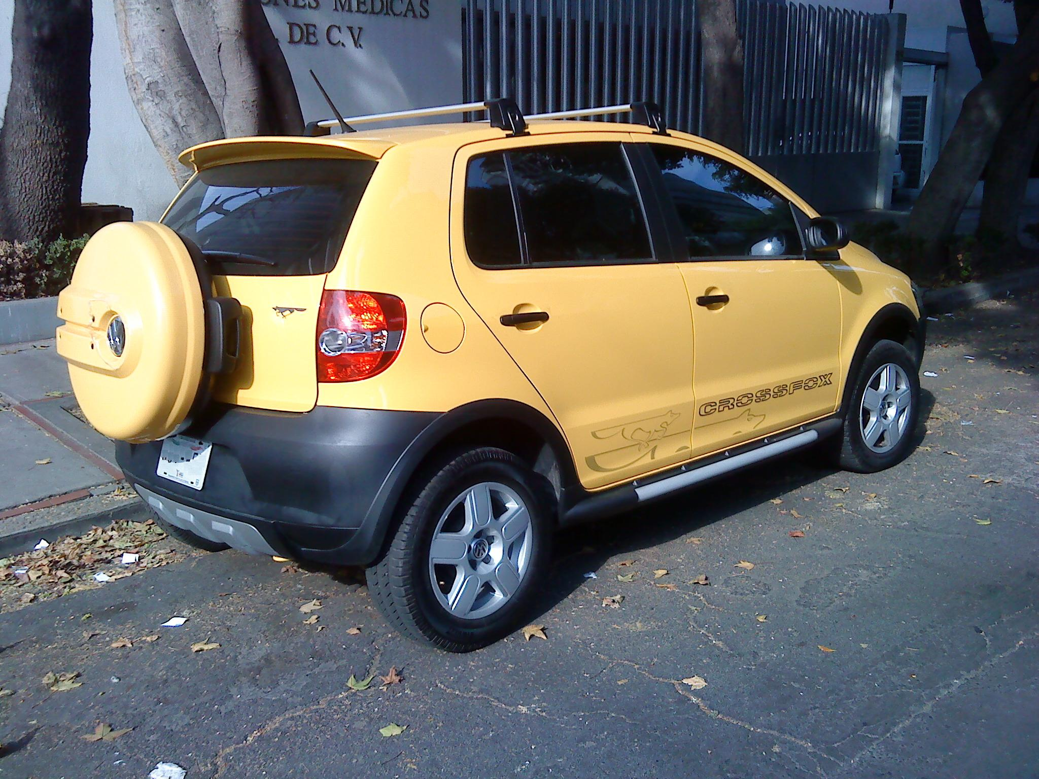 Volkswagen CrossFox 2009 mexican specification